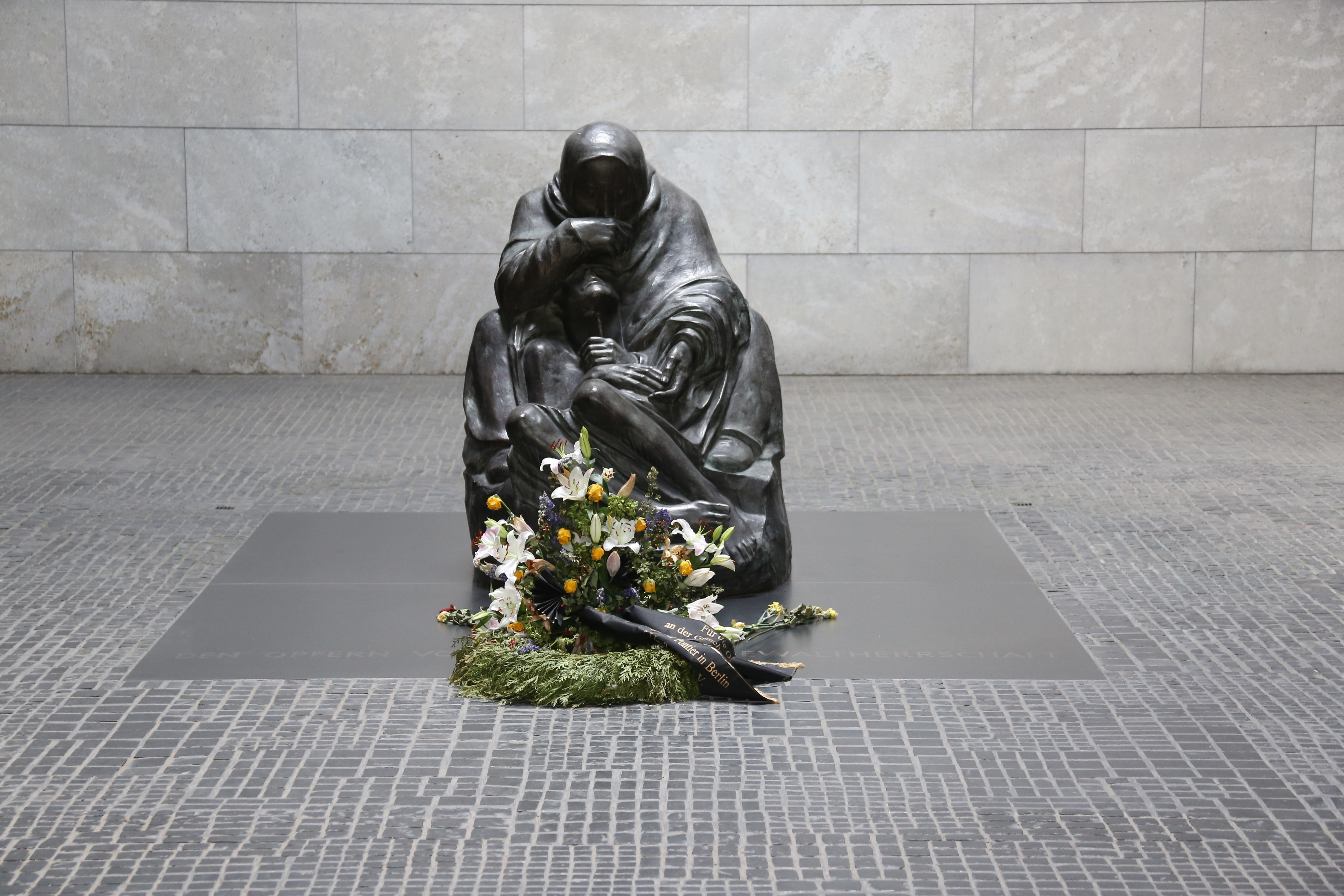 Close up of Kollwitz's statue in the Neue Wache on the Unter Den Linden in Berlin